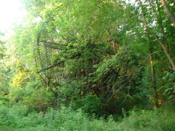 A Ferris wheel has been reclaimed by nature at Chippewa Lake Park, illustrating how some rides there are still standing (barely) but are overgrown.